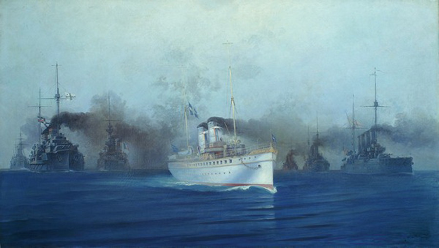 Vassilios Hatzis: Transfer of the body of King George I. (on the Greek Royal yacht Amphitrite [Αμφιτρίτη]), escorted by three Greek destroyers, Russian gunship Uralets, German battle cruiser SMS Goeben, British cruiser HMS Yarmouth, French cruiser Bruix and Italian cruiser San Giorgio.[1]